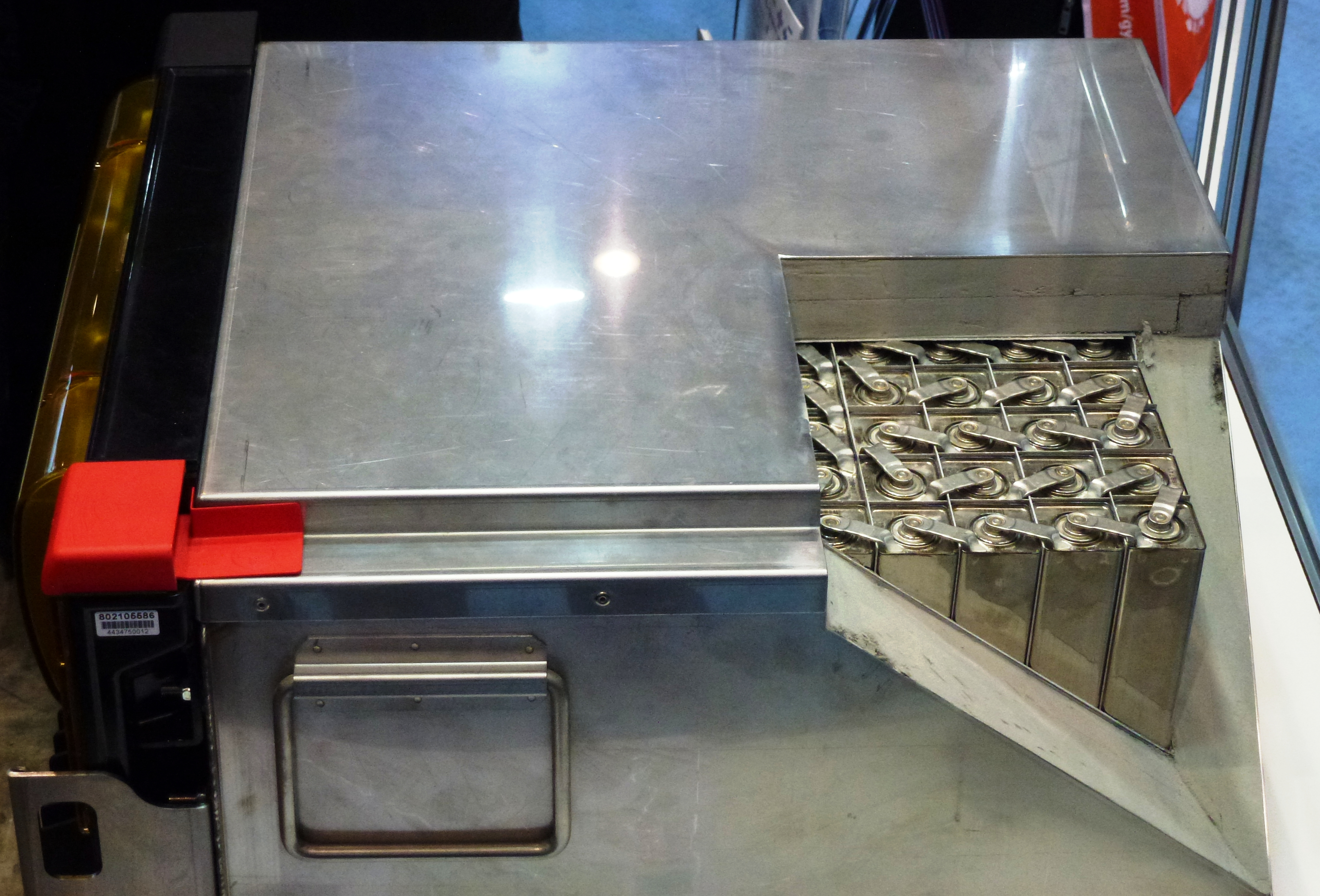 Molten Salt Secondary Battery (FIAMM SoNick